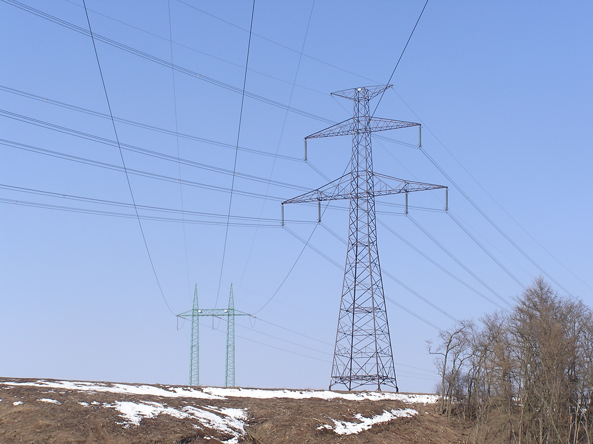 Overhead power line crossing of the Milín–Čechy Střed 220 kV power line (V208, left pylon) and the Kočín–Řeporyje (V475)/Kočín–Chodov (V476) 400 kV power lines (right pylon) at Velká Hraštice, Malá Hraštice